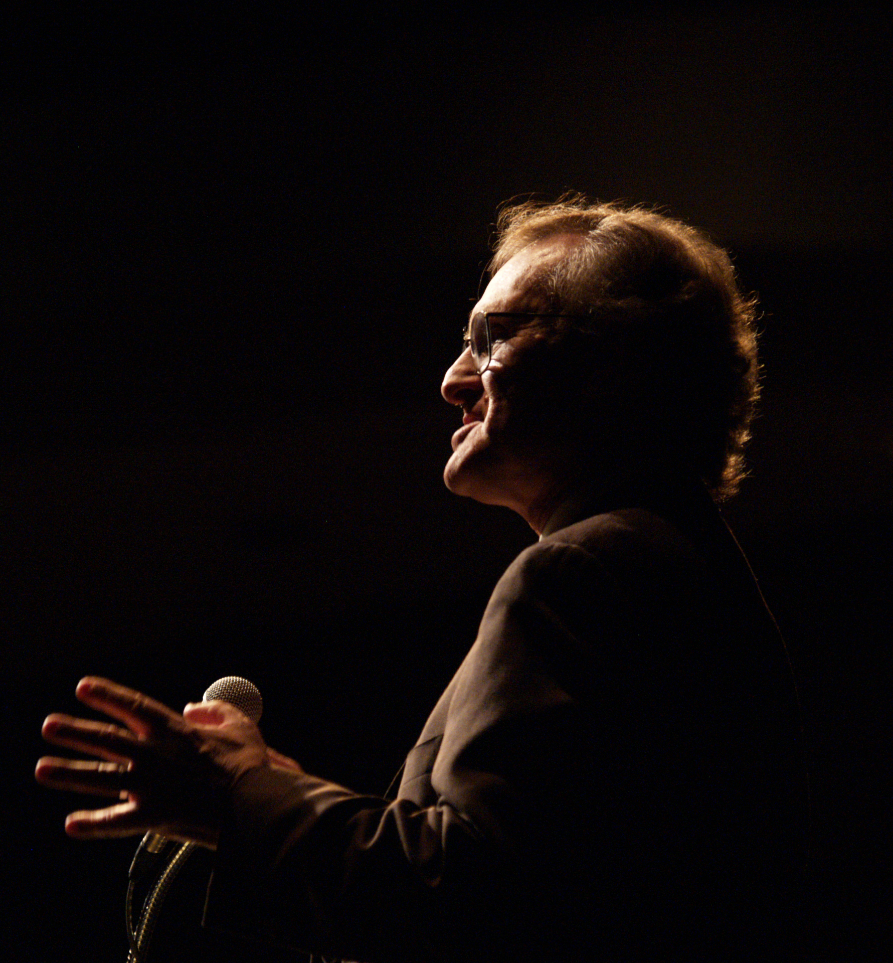 Stephen Lewis, Speaking at the University of Alberta as part of Internation Week, 2006